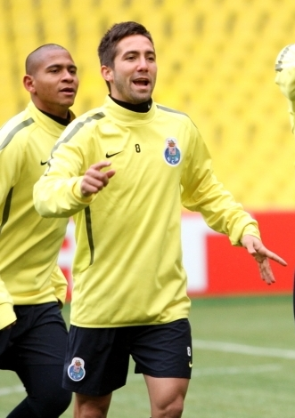 Portuguese football player João Moutinho during training session of F.C. Porto